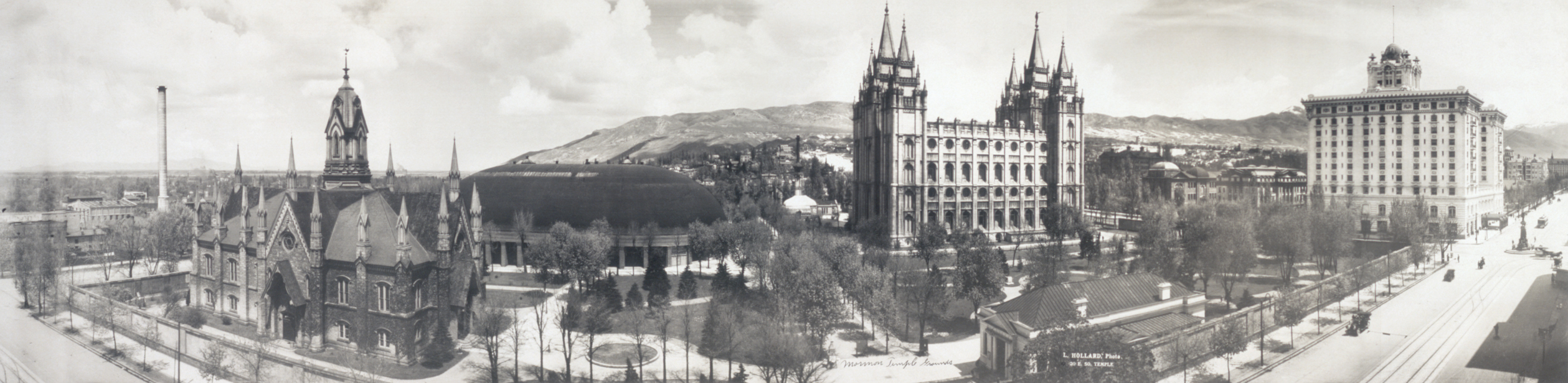 Panoramic photo of Temple Square. The photo is taken from South Temple Street between Main and West Temple. From left to right are the Salt Lake Assembly Hall, the Salt Lake Tabernacle (the dark roofed domed structure behind the Hall), the Salt Lake Temple, and Hotel Utah is on the far right. Hotel Utah is now the Joseph Smith Memorial Building.